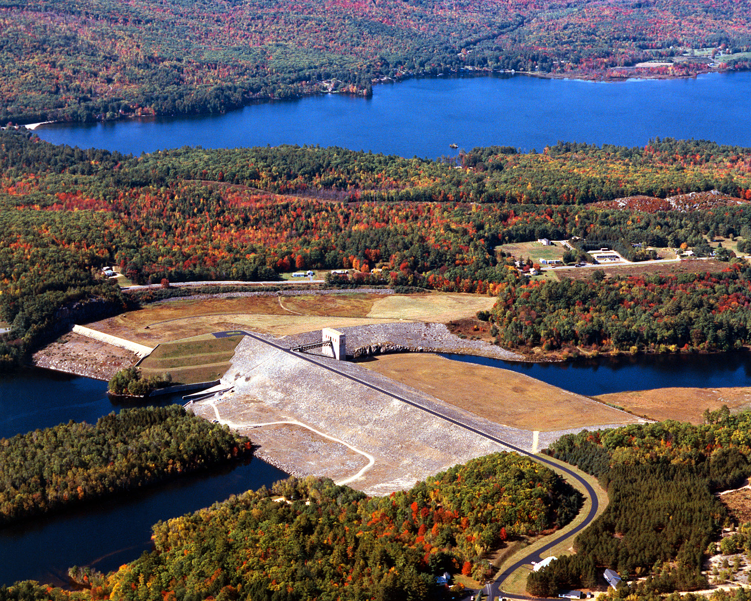 Franklin Falls Dam on the Pemigewasset River near the town of Franklin in Merrimack County, New Hampshire, USA. The U.S. Army Corps of Engineers constructed the dam for flood control on the river.